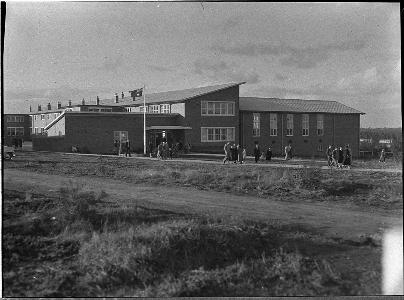 Opening new high school at Kurri Kurri